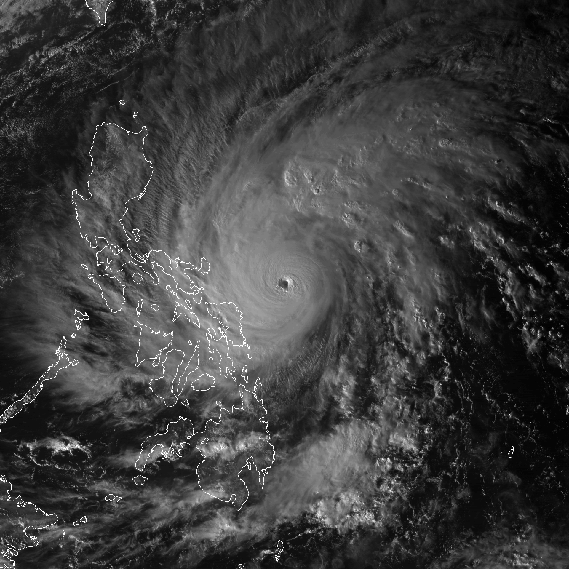 The Japan Meteorological Agency’s MTSAT-1R satellite captured this visible imagery at 07:30 Coordinated Universal Time (15:30 Philippine Standard Time) on November 29, 2006, featuring Typhoon Durian (Reming) at sunset.